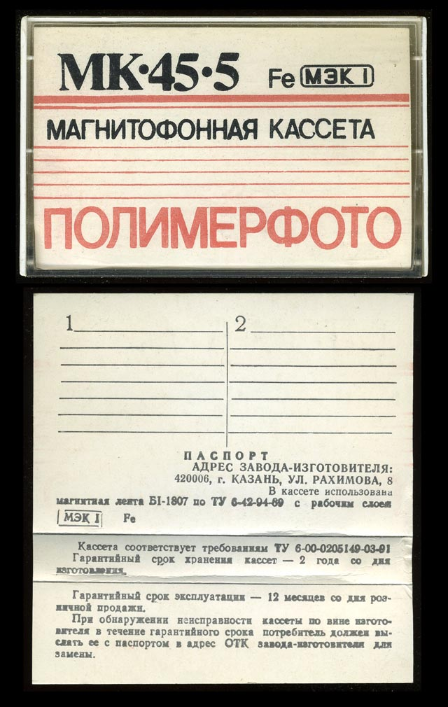 Shell and back of J-card for a Soviet (Russian) 45-minute cassette tape. Production ref code (TY-...-91) ending in ..91 means that the tape was made in 1991 or after that year: so it could've been made before or after collapse of the Union.